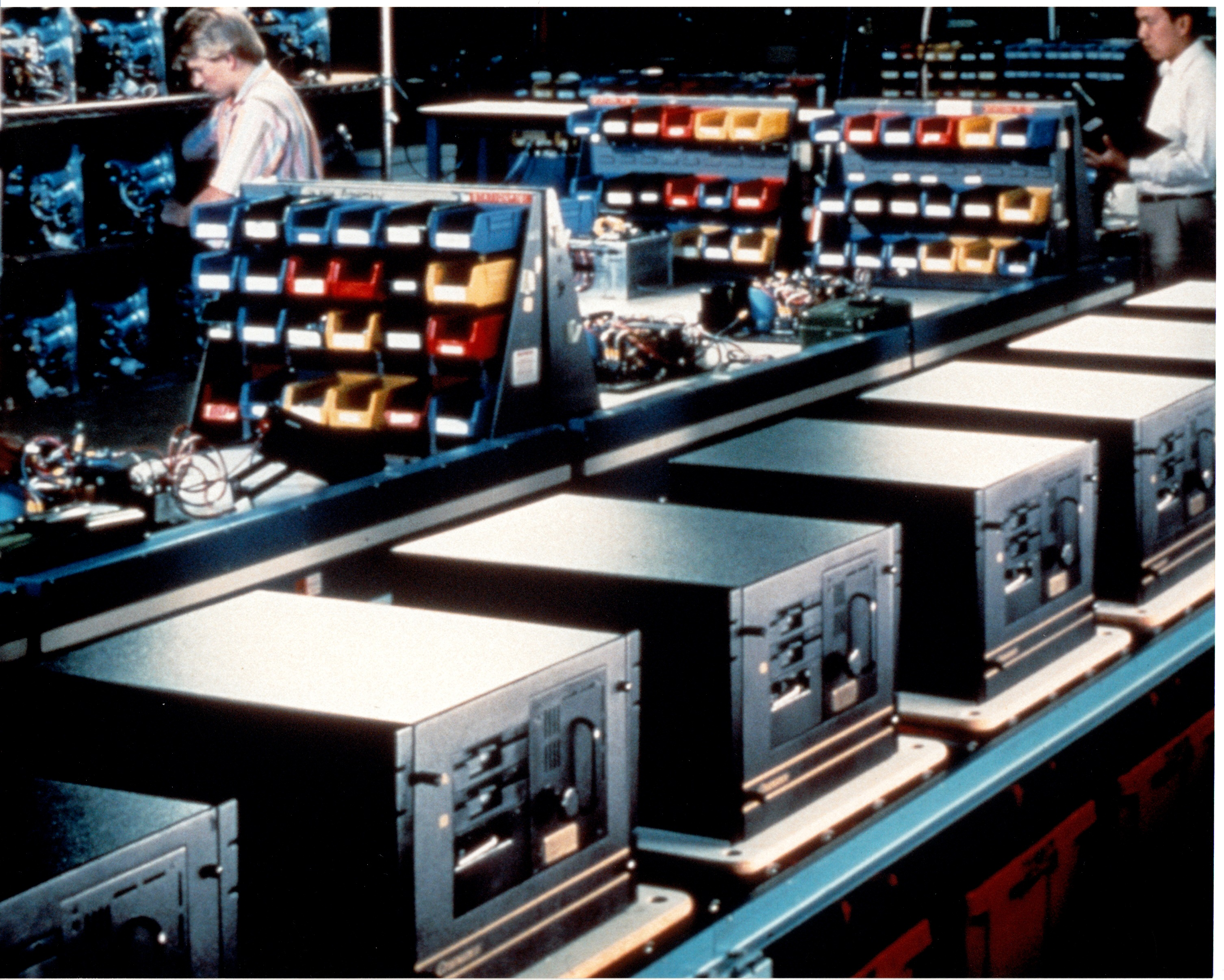 Cromemco production line for United States Airforce Mission Support Systems (Cromemco CS-250). These systems were used for the first-generation USAF MSS from 1986 to 1997, including use in the First Gulf War.